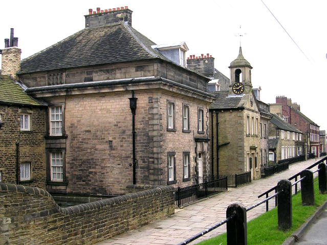 Fulneck Moravian Settlement - looking West, Pudsey, Leeds, West Yorkshire, England.